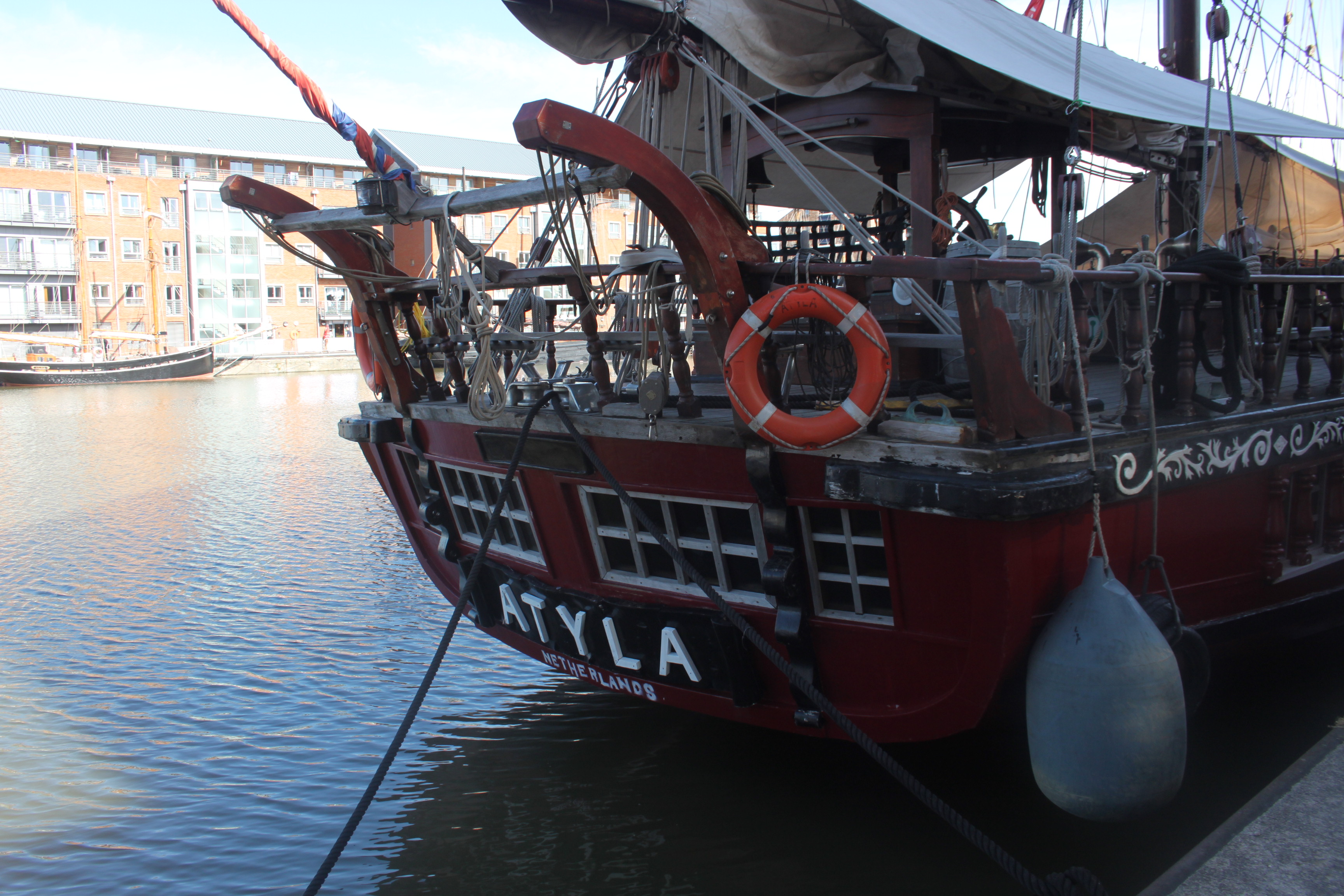 The tall ship Atyle in Gloucester Docks